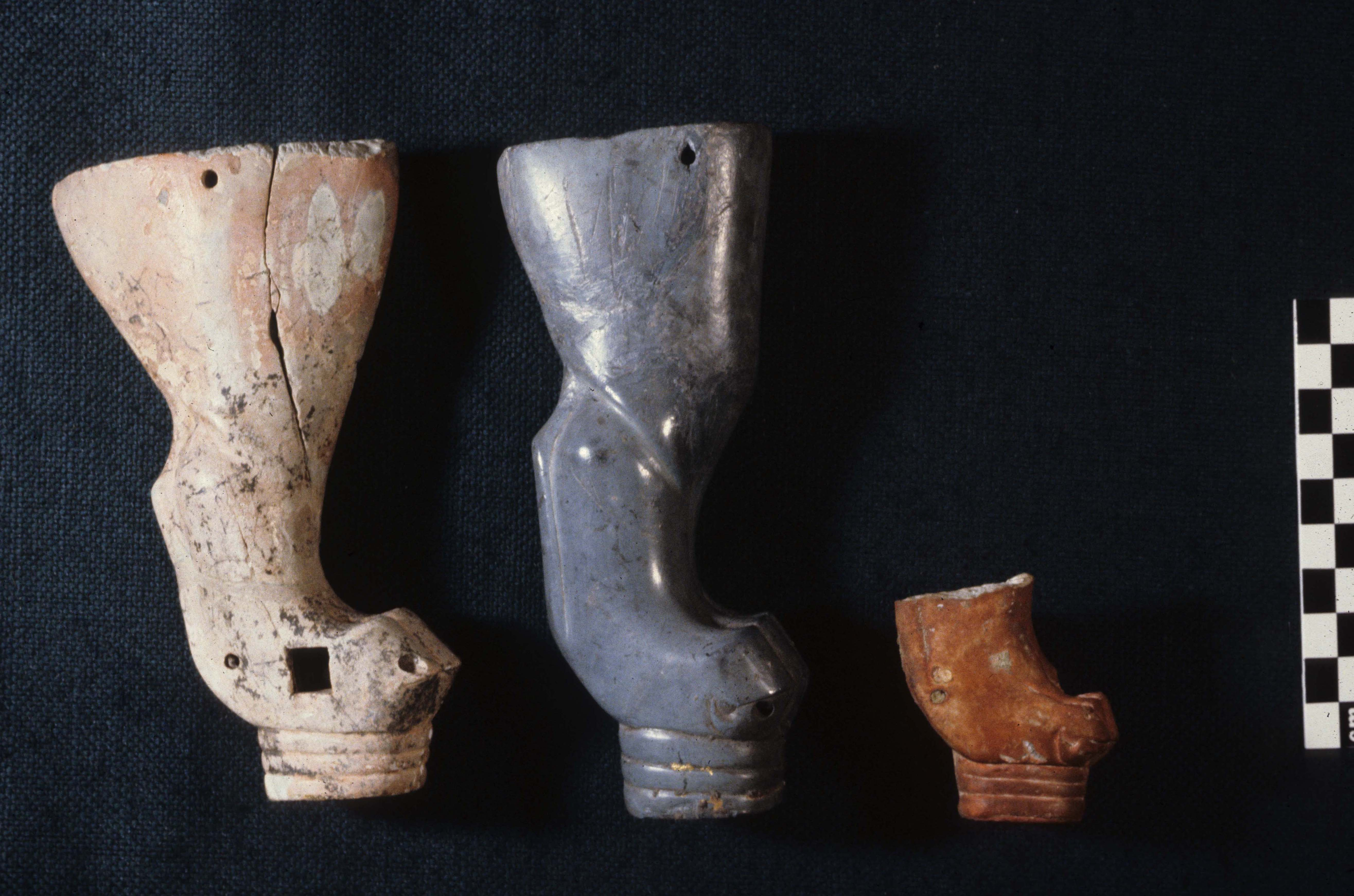 Three ivory lion legs (Pratt ivories) in the Metropolitan Museum of Art, New York, NY. These belonged to an ivory chair from the site of Acemhöyük, Turkey. 19th-18th century B.C. Photograph Elizabeth Simpson.